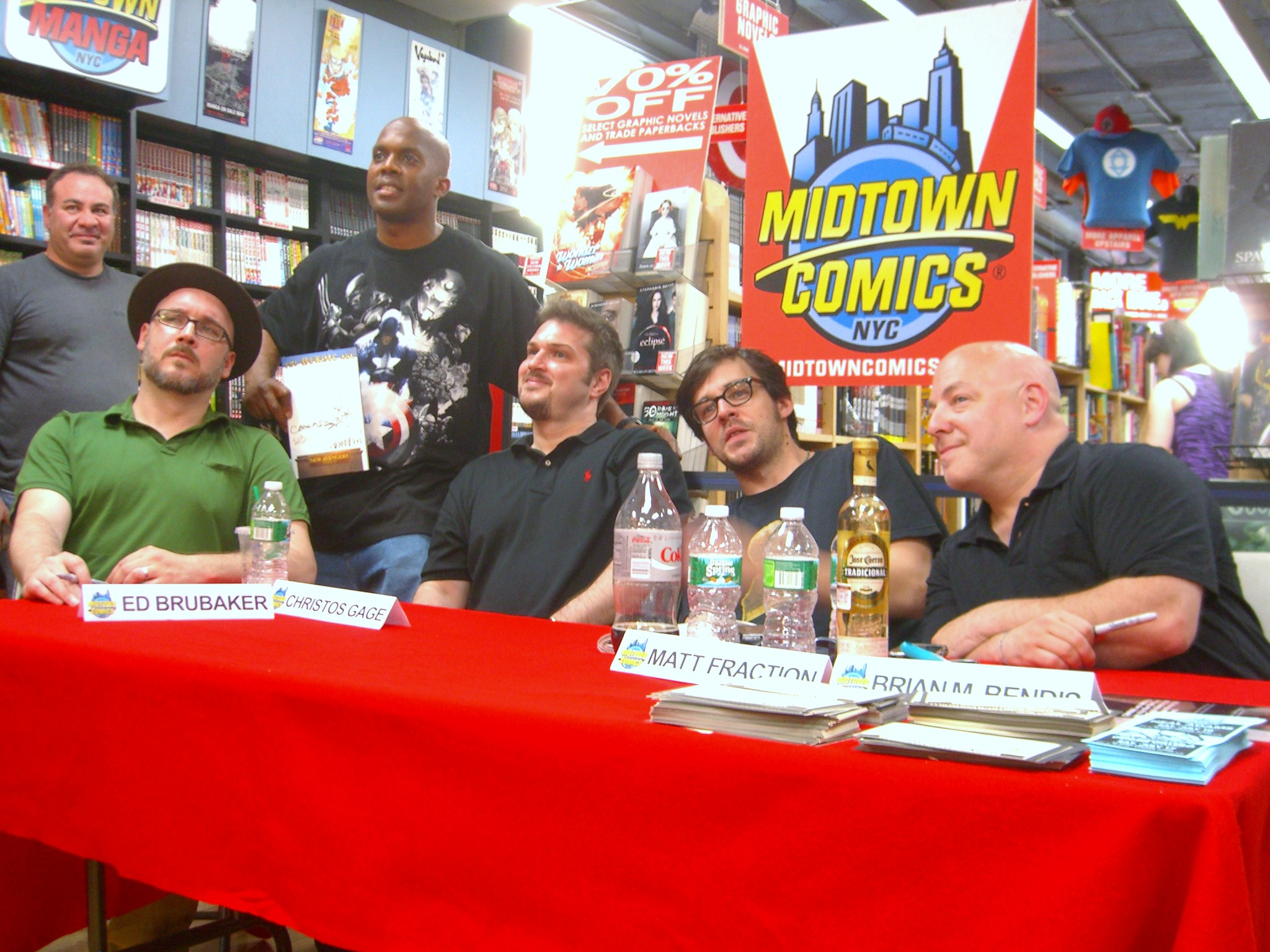 From the left to right: Writers Ed Brubaker , Christos Gage , Matt Fraction and Brian Michael Bendis at a book signing at Midtown Comics Times Square in Manhattan, June 21, 2010. This photo was created by Luigi Novi. It is not in the public domain, and use of this file outside of the licensing terms is a copyright violation.